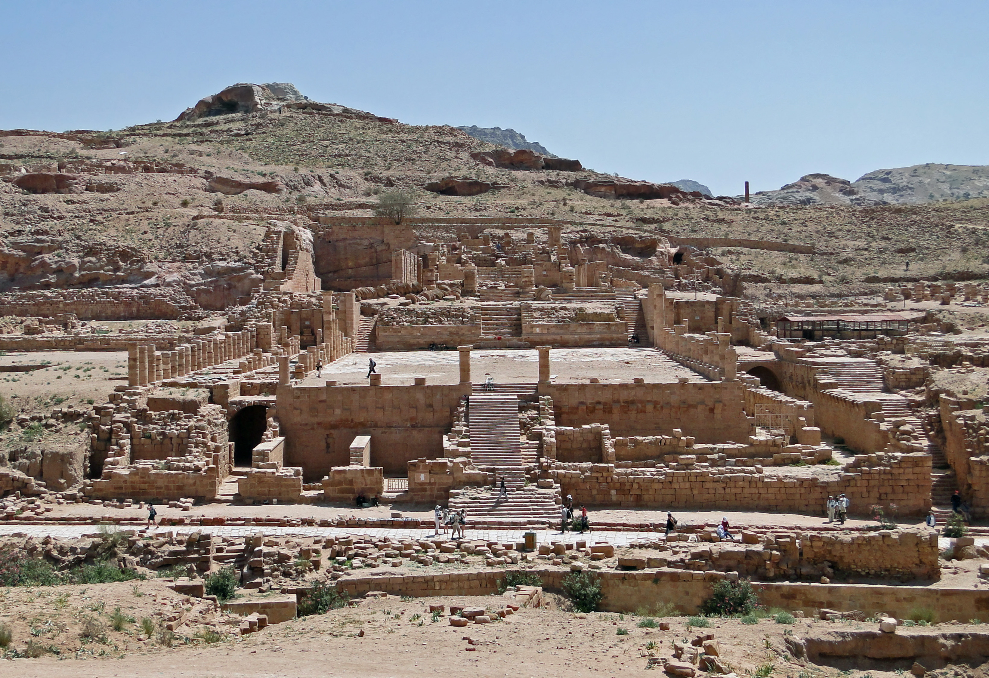 The Great Temple of Petra, Jordan